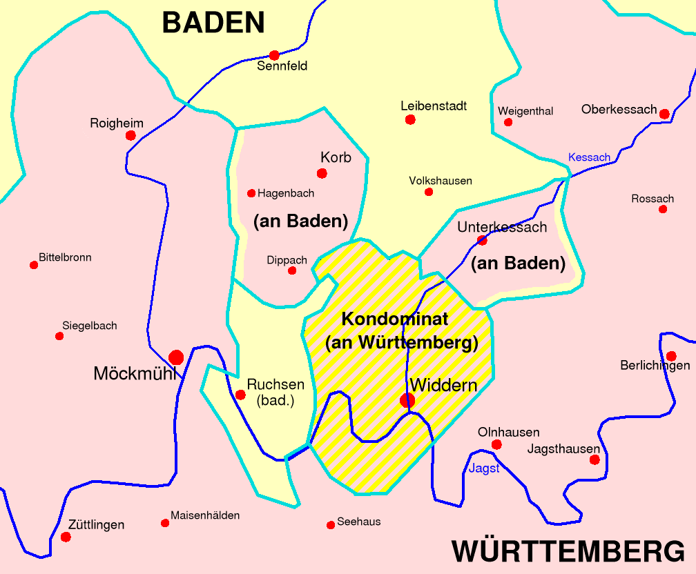 Effects of the 1846 border treaty between the German states of Baden and Württemberg near Widdern